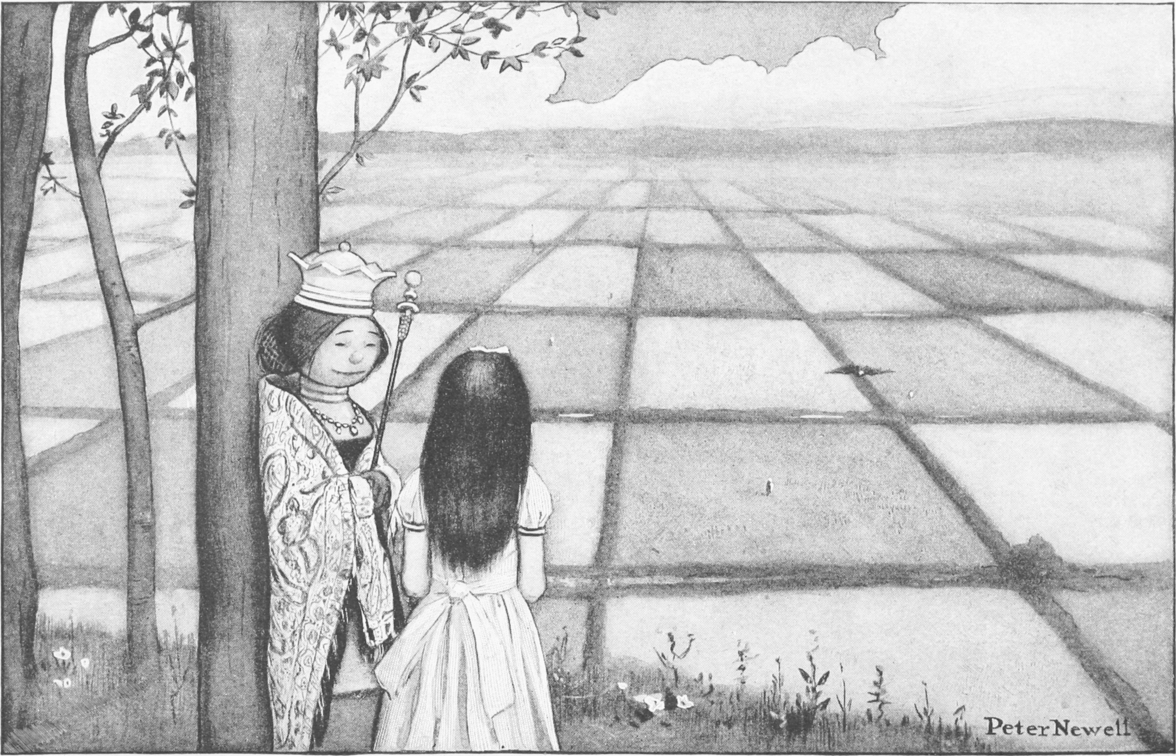 "'I declare it's marked out just like a large chessboard!'". Illustration by Peter Newell to "Through the Looking-Glass and What Alice Found There", chapter "The Garden of Live Flowers".